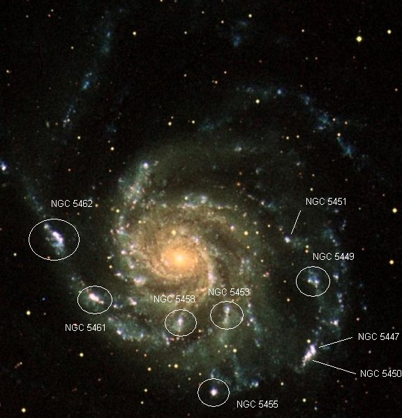 Galaxy Messier 101 with marked H II regions/star clouds catalogued in New General Catalogue.